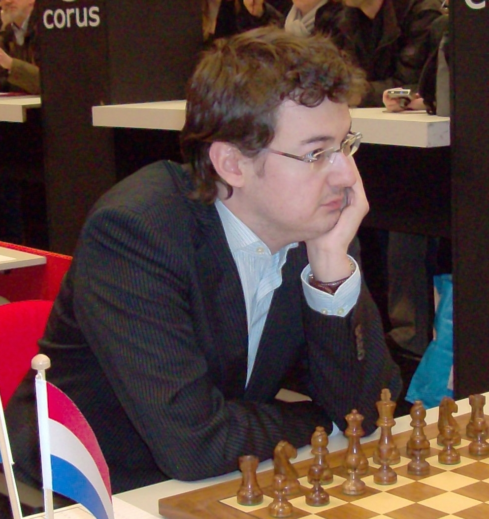 Erwin l'Ami, chess grandmaster from the Netherlands